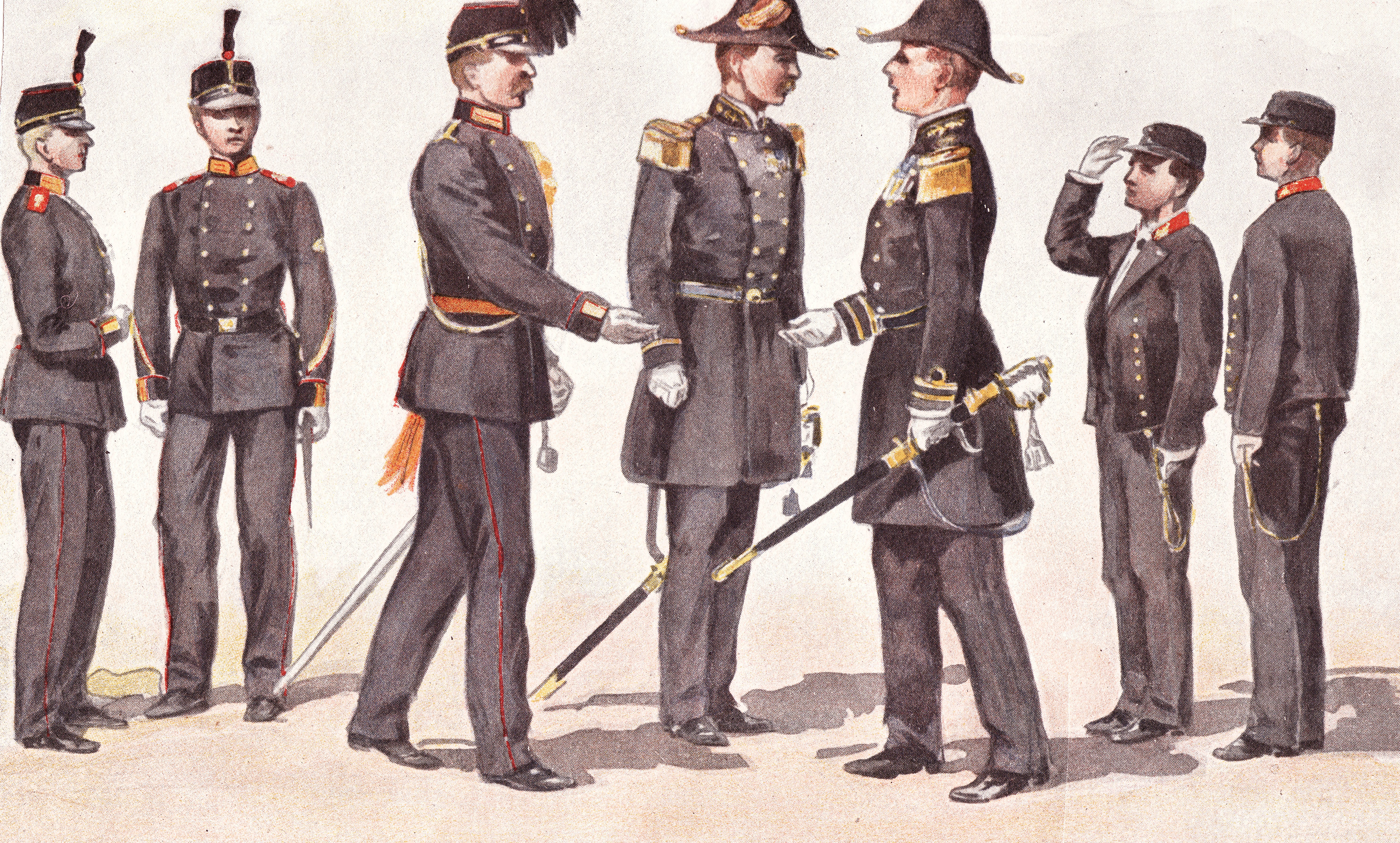 Adelborsten